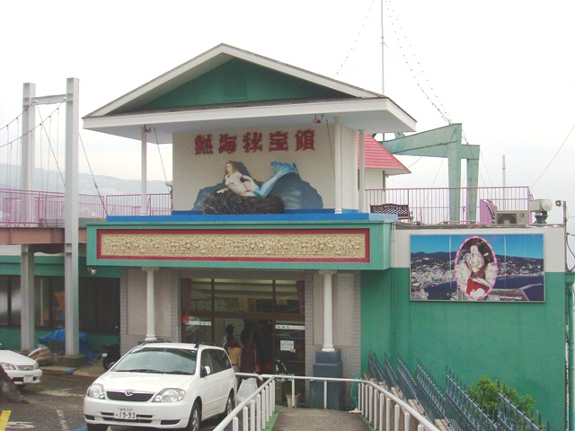 Atami Hihoukan, one of the popular (and probably one of the oldest) sex museums in Japan, Atami